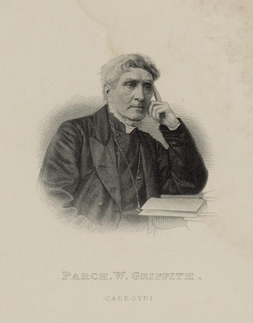 A portrait from the Welsh Portrait Collection at the National Library of Wales. Depicted person: William Griffith – Independent minister and hymn-writer (1801 -1881)